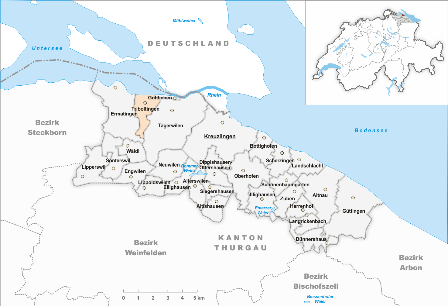 Municipality Triboltingen